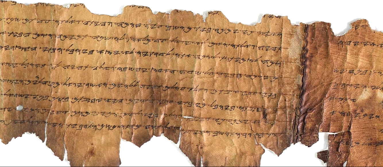 Close-up of paleo-Hebrew Leviticus scroll, now at the Israel Antiquities Authority in Jerusalem